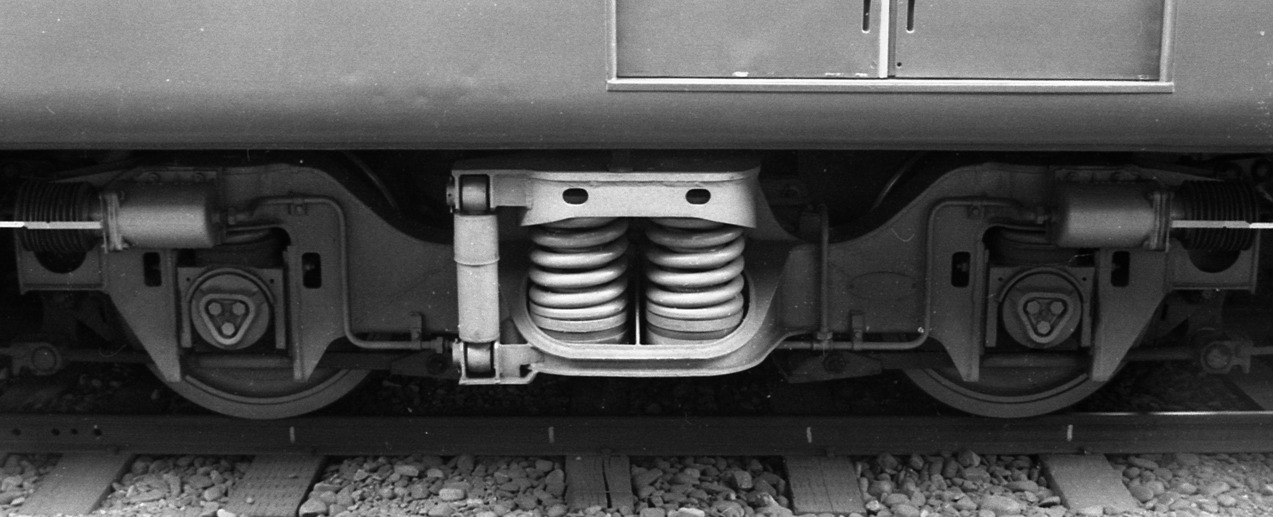 Bogie truck NA-10 for Nagaden 0 series